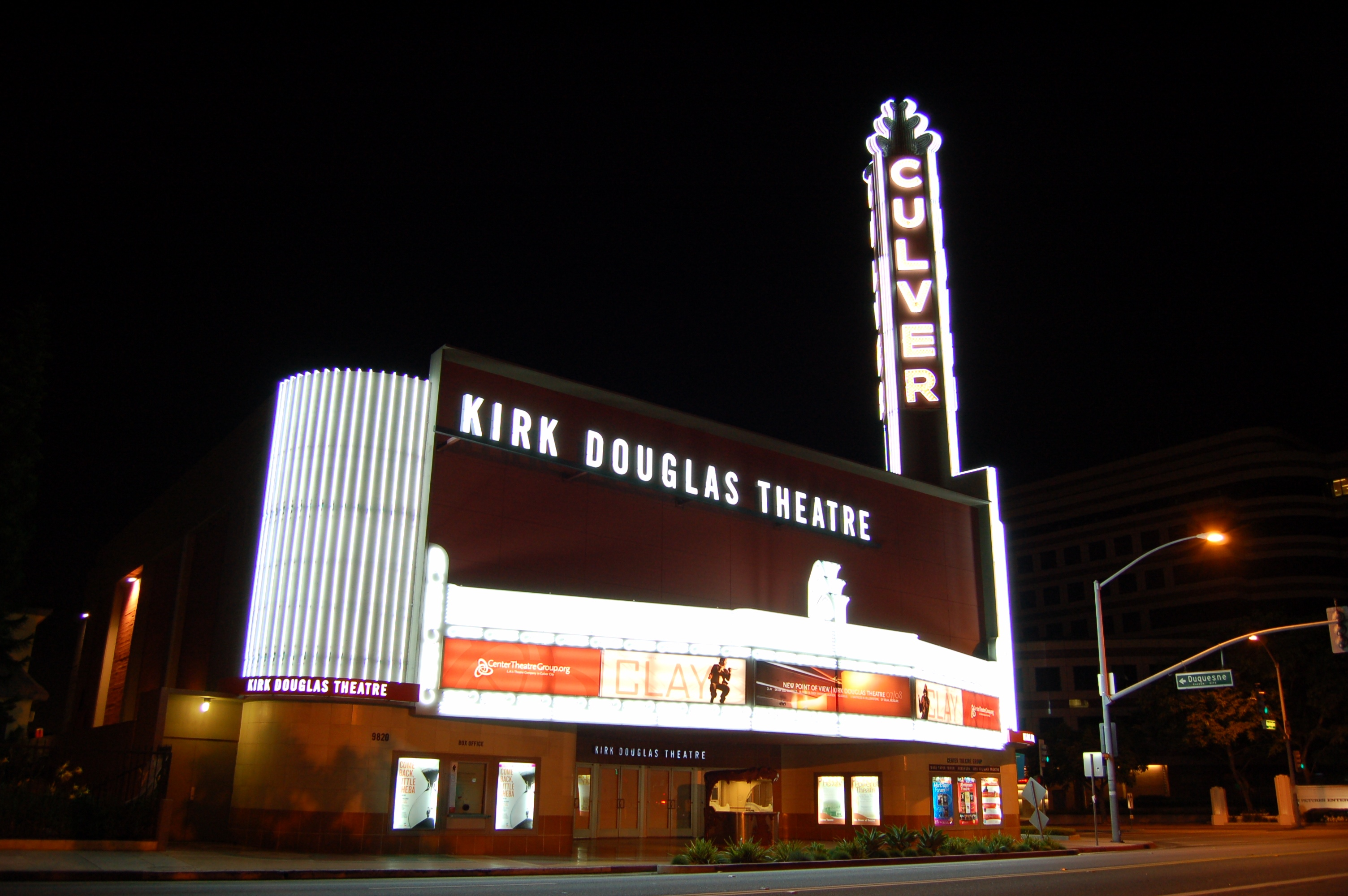 Kirk Douglas Theatre in Culver City, California. Clay, a hiphop musical based on various characters from the works of Shakespeare, is shown on the marquee.